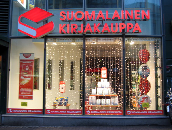 Suomalainen Kirjakauppa book store in Tampere, Finland.